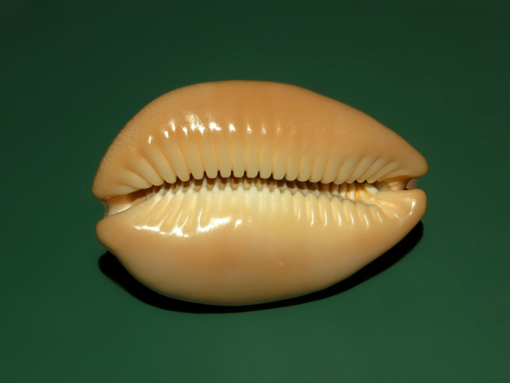 Lyncina sulcidentata - Hawaii